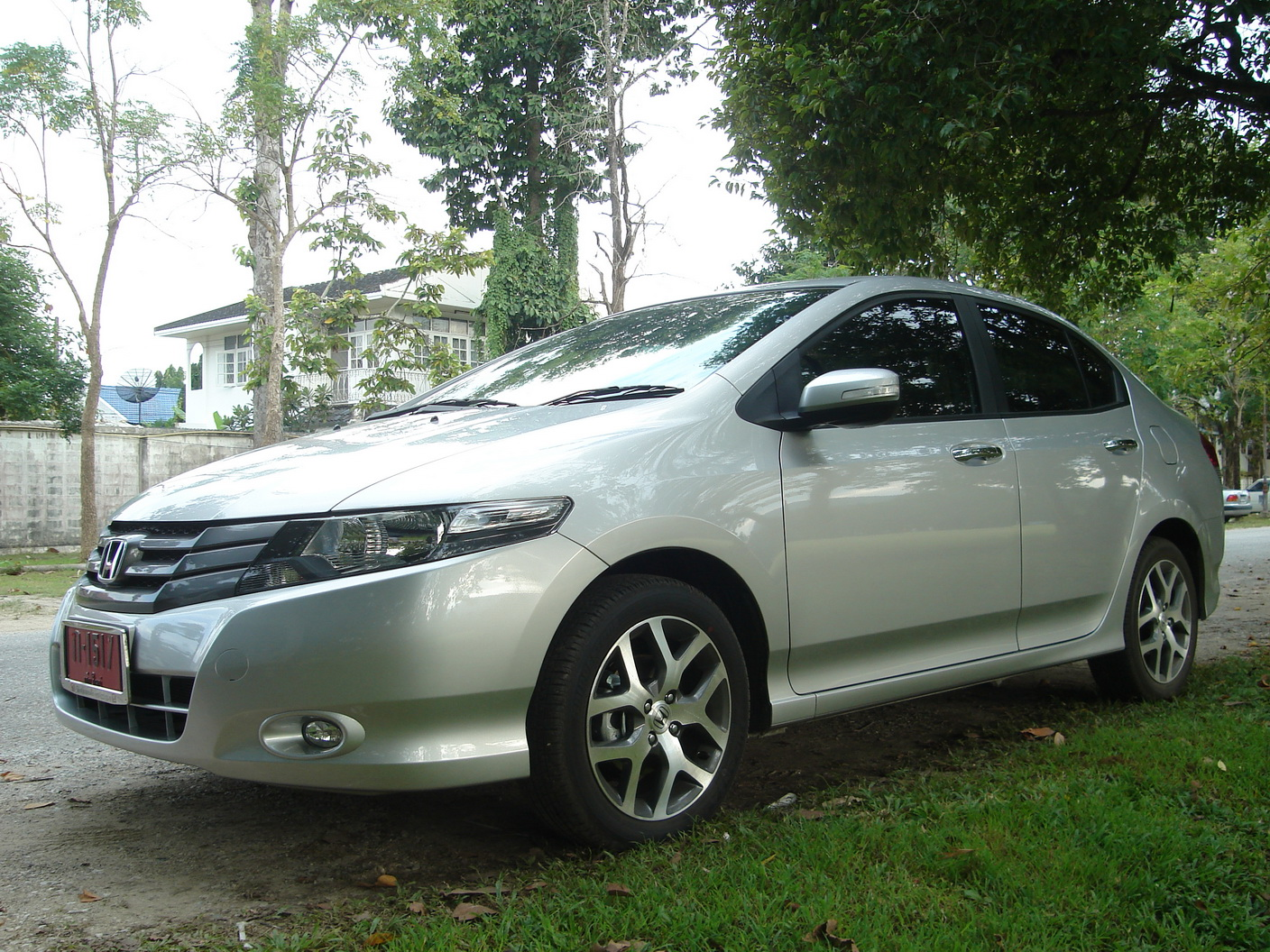 Fifth generation Honda City